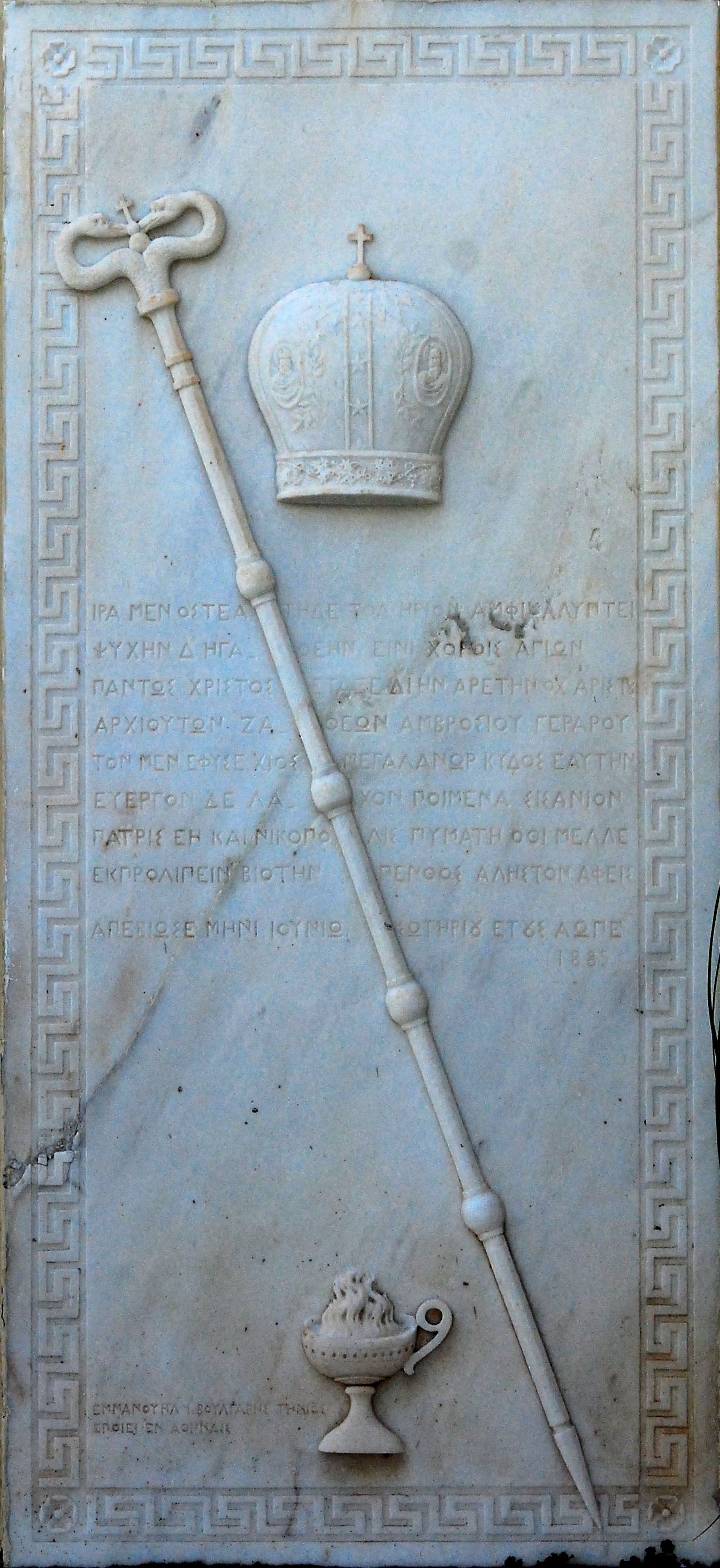 Tomb stone of bishop Amvrosios of Nicopolis & Preveza, now placed on the south wall of St. Haralambos church, Preveza, Greece.